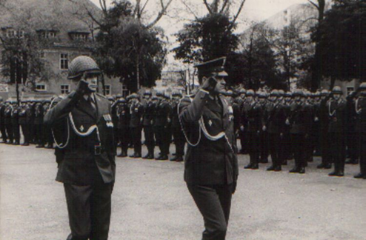 Stargard,1986r. Dowódca 9pz mjr dypl. Oleg Kruszelnicki podczas uroczystości wojskowej w towarzystwie szefa sztabu mjr dypl. Antoniego Glinkowskiego